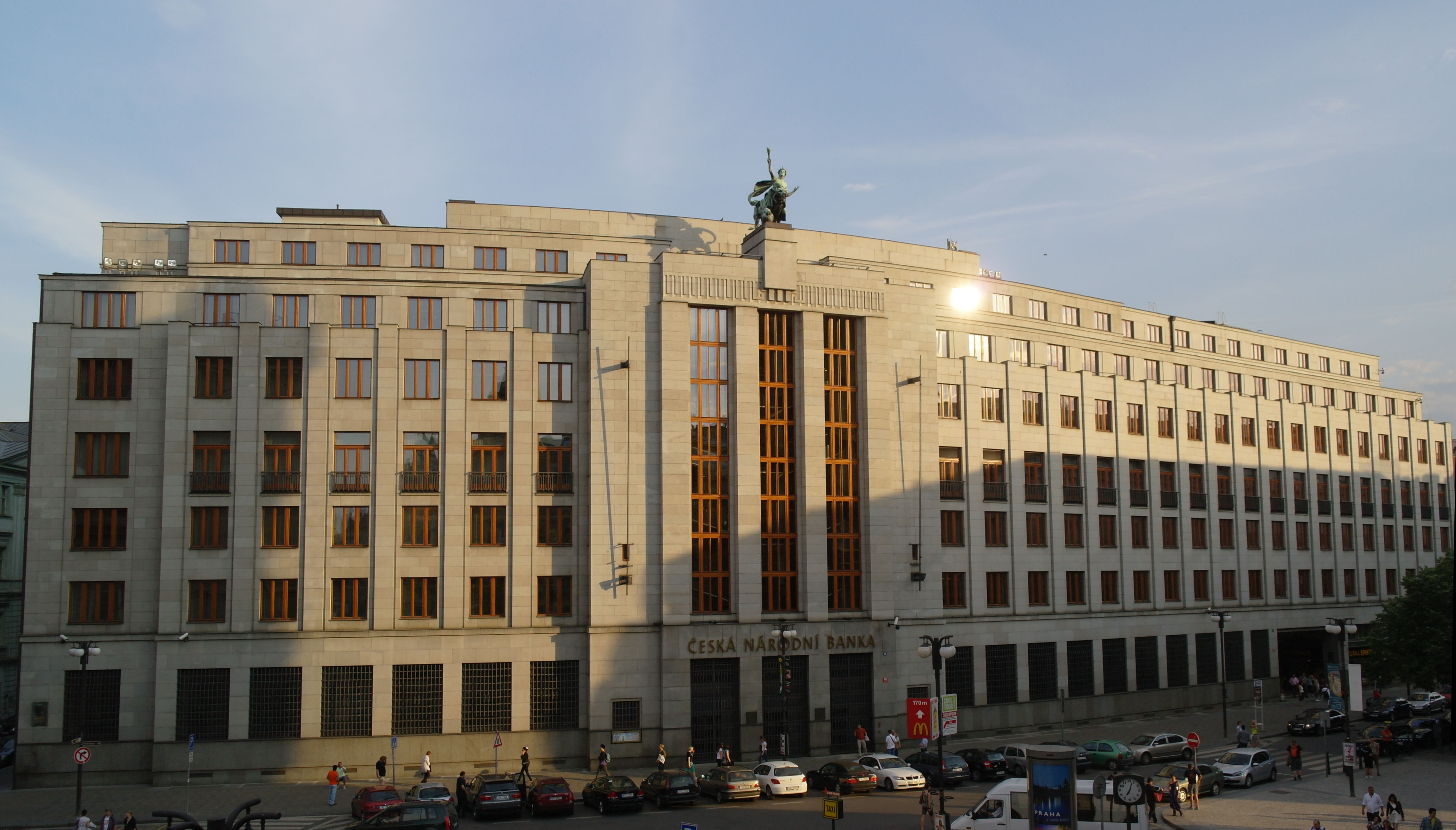 Building of Czech National Bank (Česká národní banka) in Prague, front view